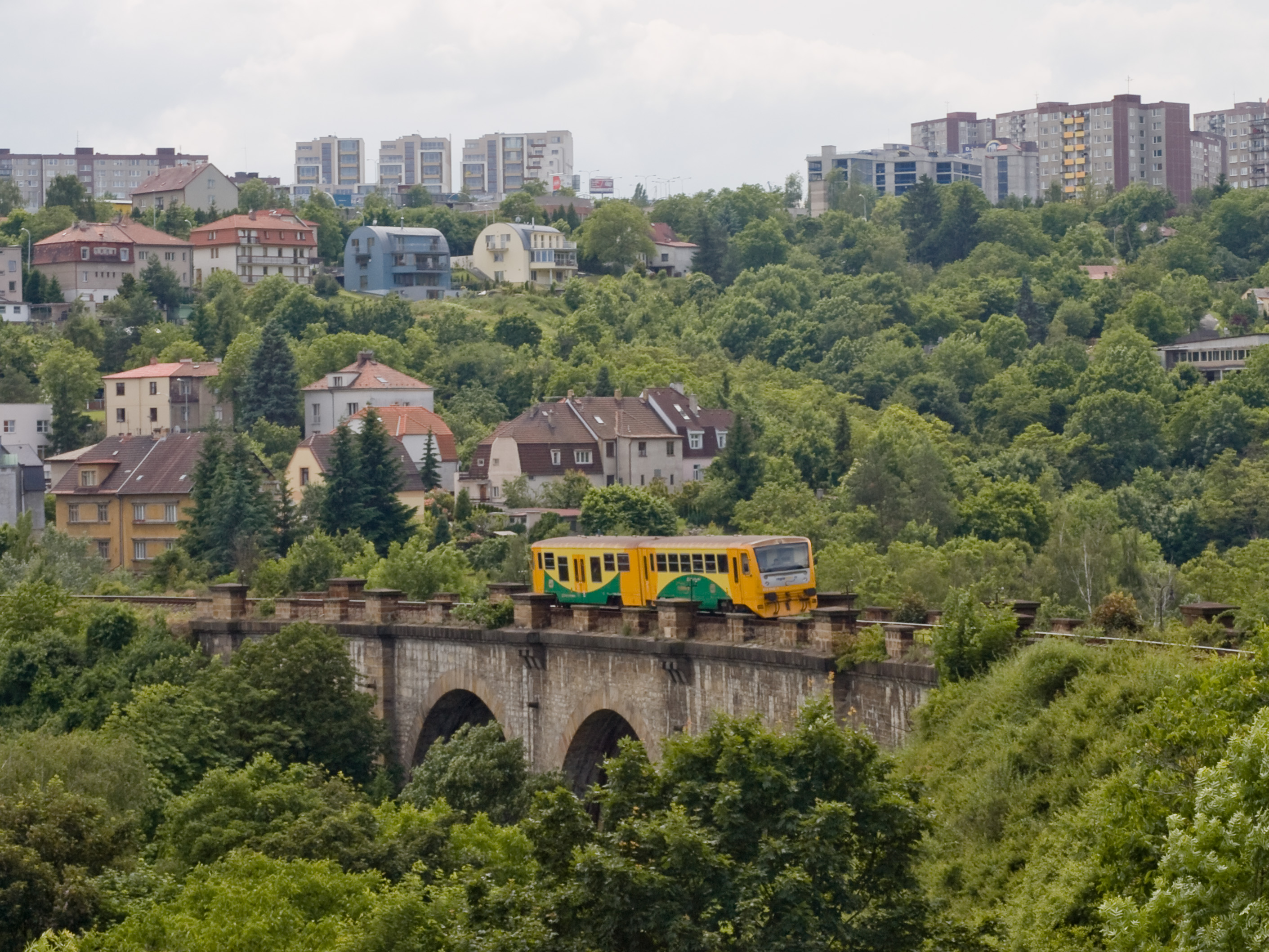 ČD Class 814+914 on substitue train transport near hlubočepské viadukty, Prague